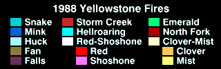 Yellowstone fires of 1988 legend